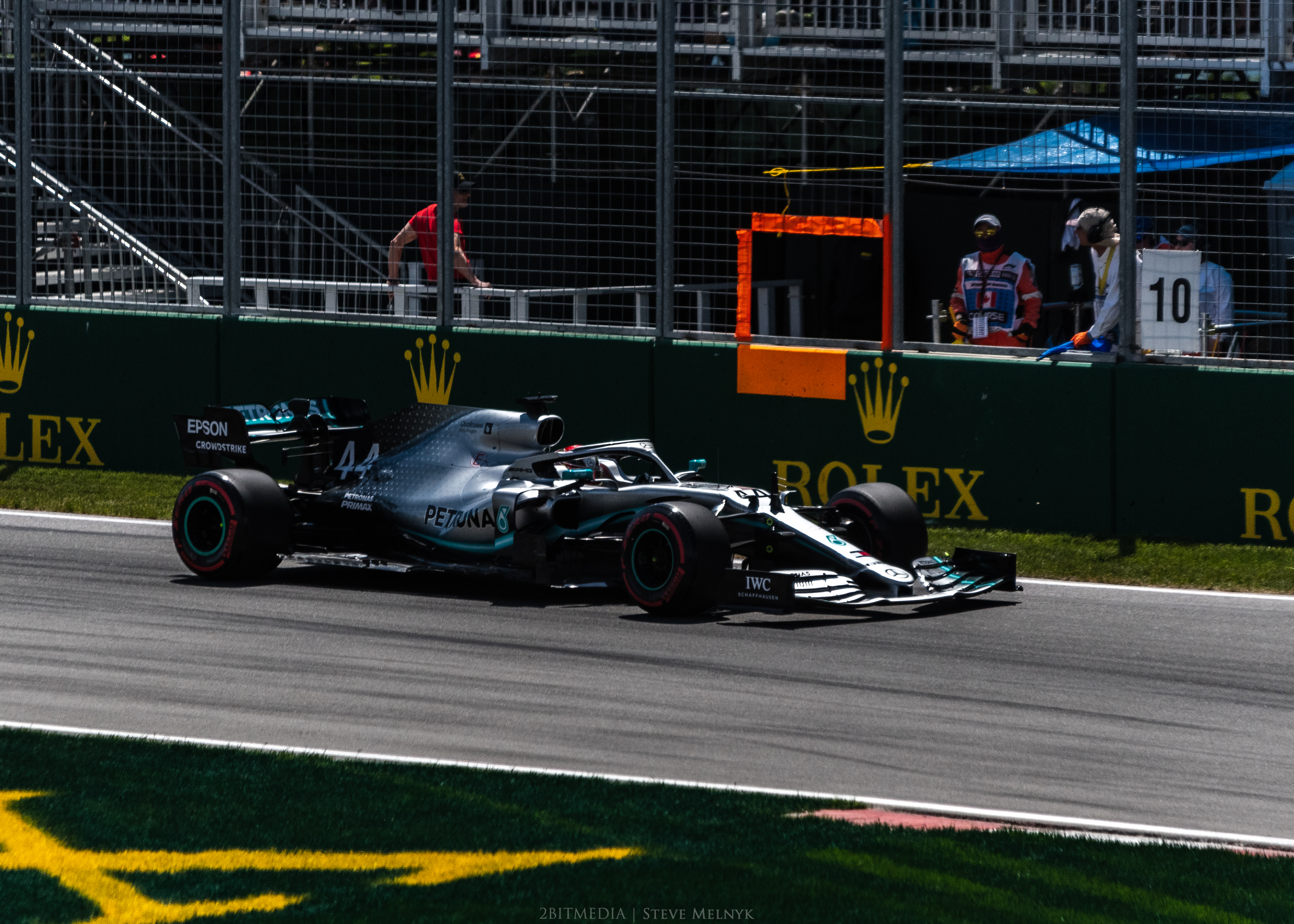 2019 Canadian Grand Prix Hamilton